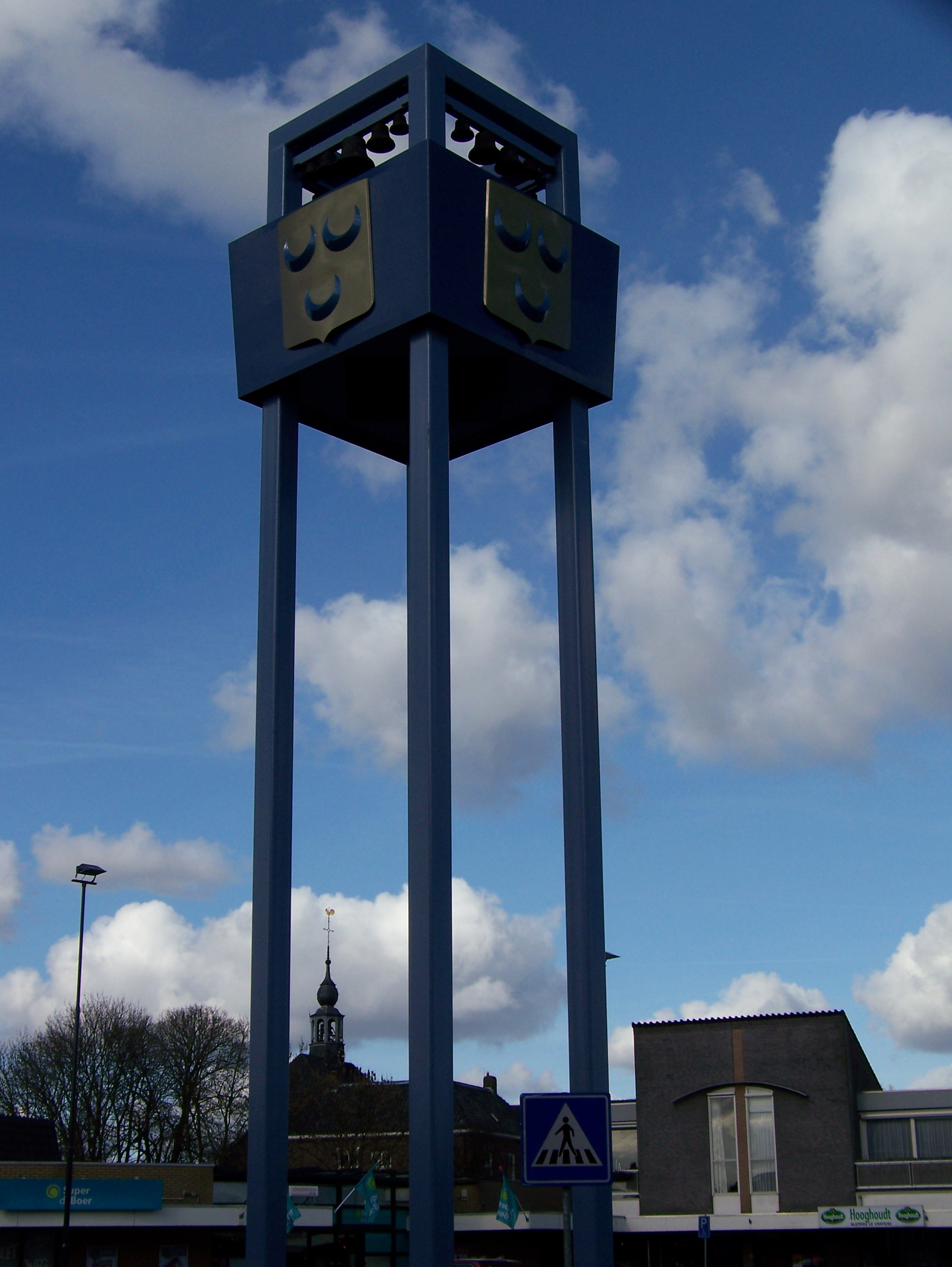 Carillon Hedel